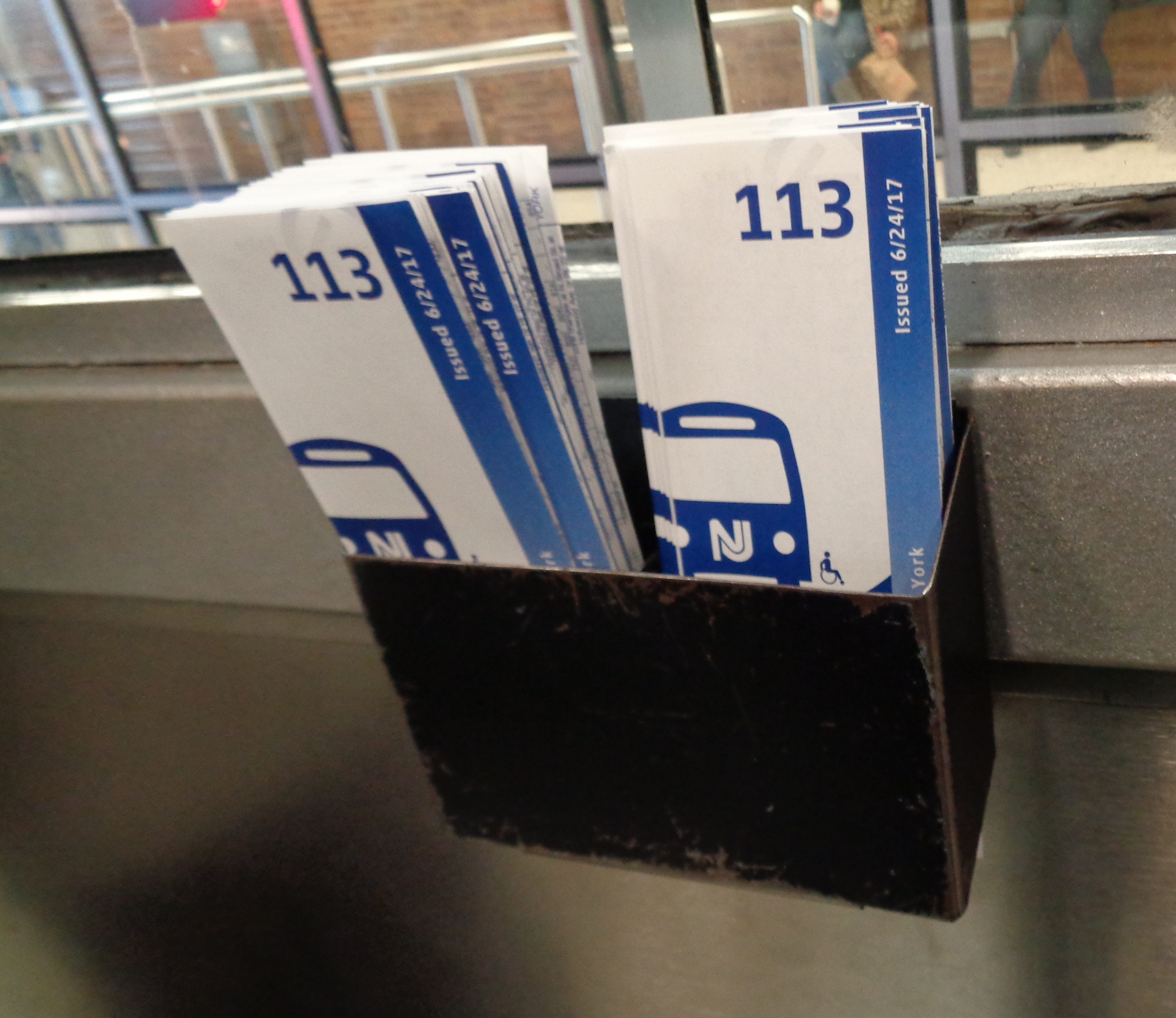 Gate 223 of the Port Authority Bus Terminal in Midtown Manhattan. Pictured are several bus schedules for Route 113 to Dunellen, New Jersey.